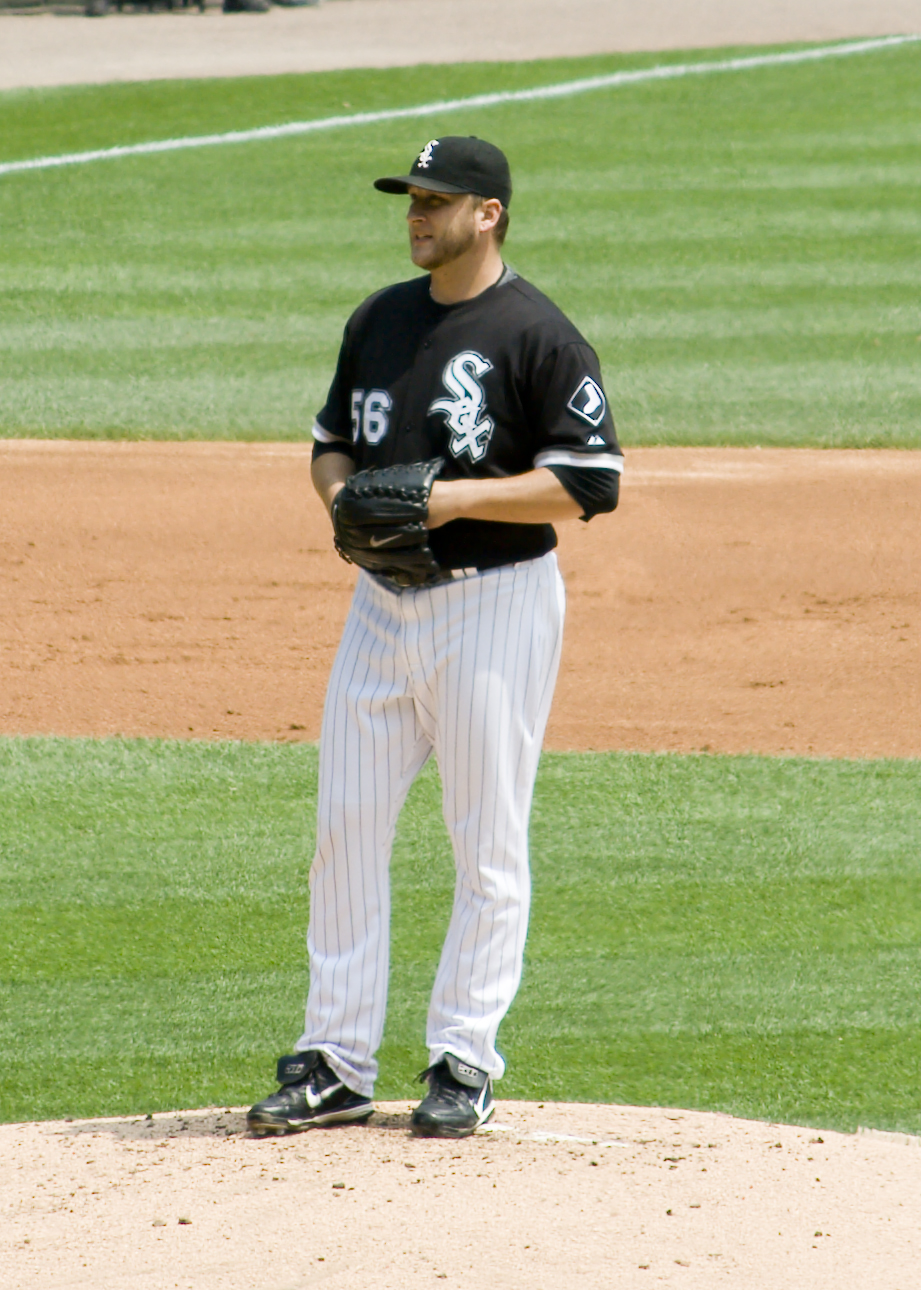 Mark Buehrle takes a sign during his 2009 perfect game.